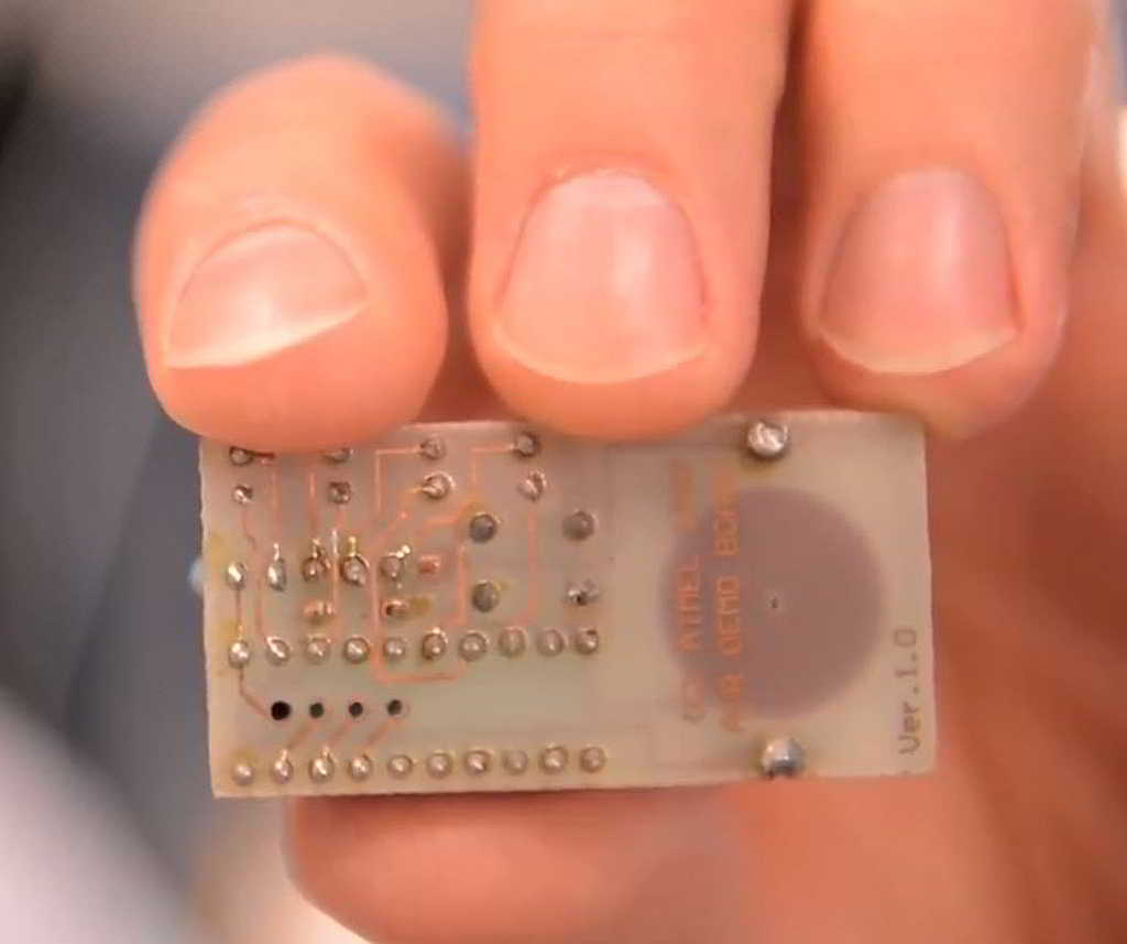 This is the backside of the first Atmel AVR prototype board. Front of board is file: AVR-prototype-demo